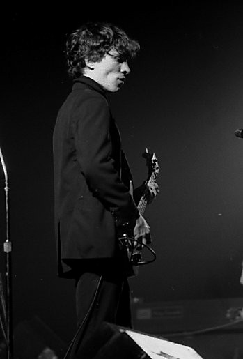 International center, Toronto, October 9, 1976; Gary Valentine of "Blondie"